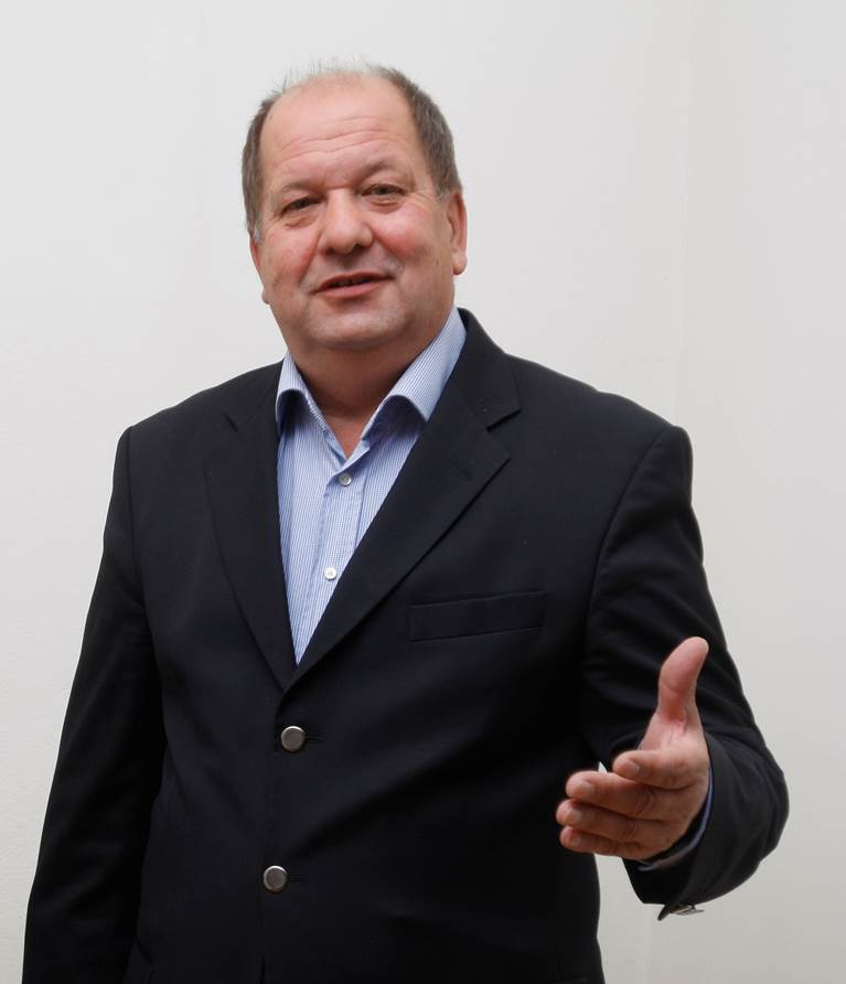 Marjan Sturm